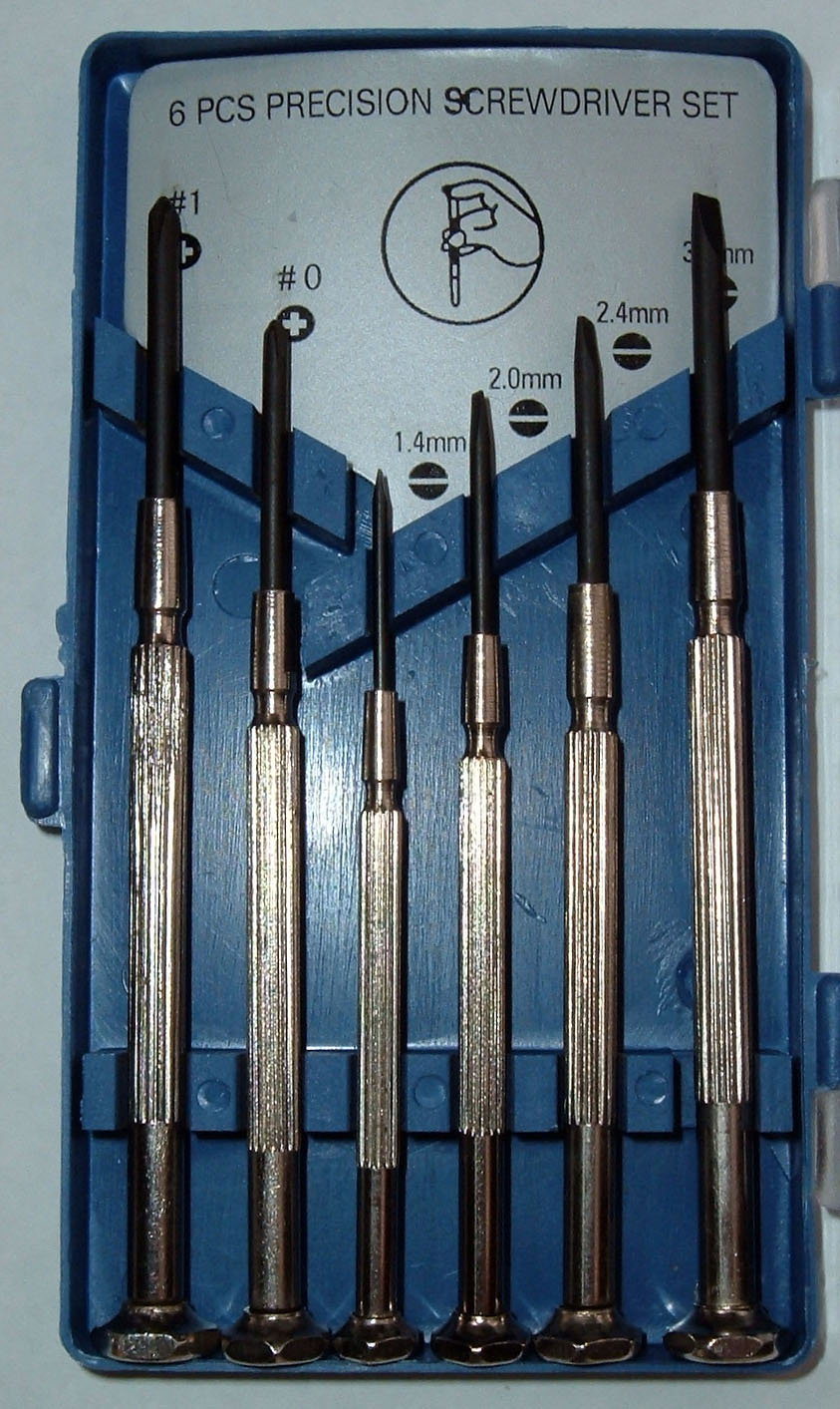 Jeweler's screwdriver set